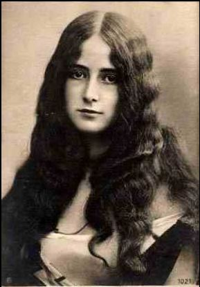 Early Cleo de Merode Postcard [1]